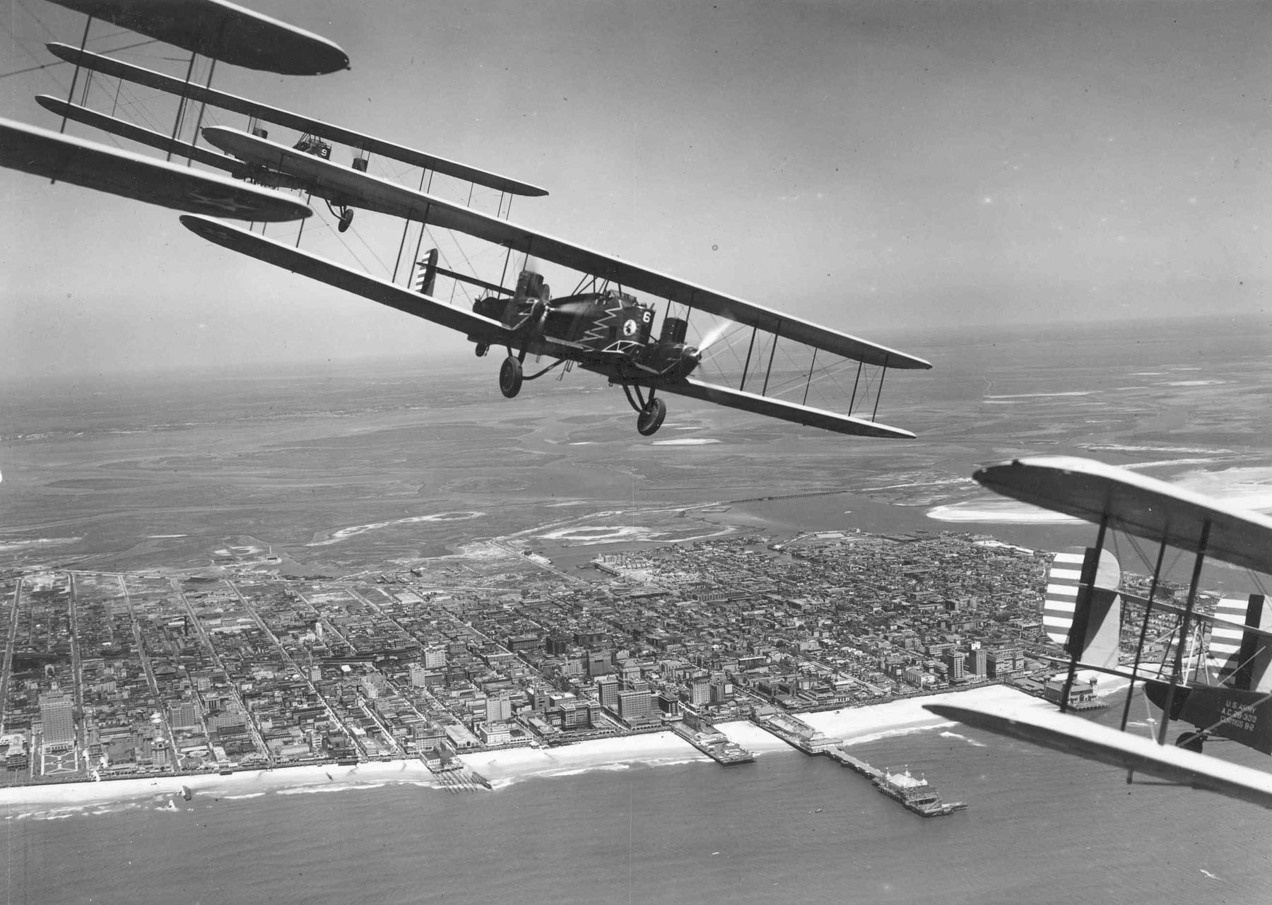 U.S. Army Air Corps Curtiss B-2 Condor bombers flying over Atlantic City, New Jersey (USA), in 1929. Original caption: "Curtiss B-2 formation flight over Atlantic City, N.J. S/N 28-399 is in the foreground (tail section only). (U.S. Air Force photo)"